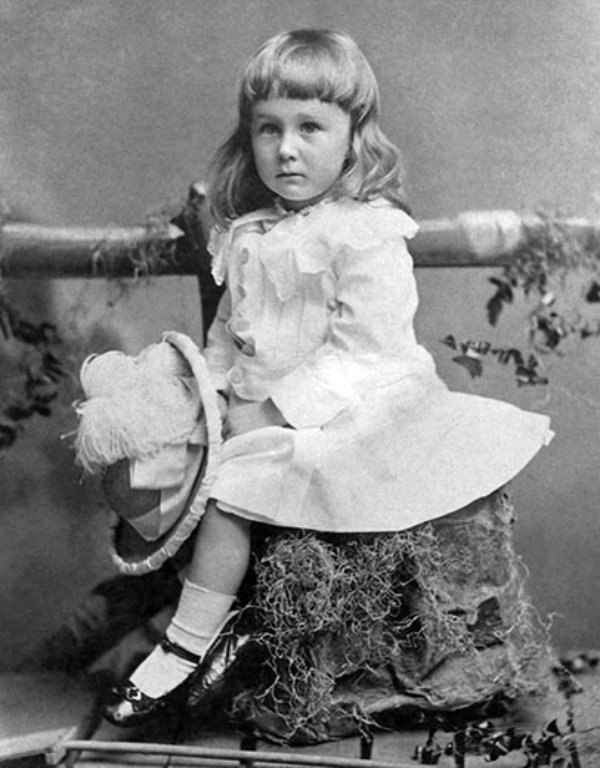 A photograph of Franklin Delano Roosevelt at age 2 1/2, illustrating typical gender-neutral clothing at the time.